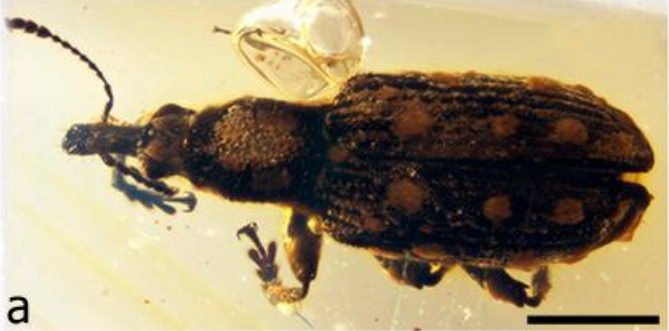 Nugatorhinus chenyangi, holotype. Habitus, dorsal (a); Scale bar: 1.0 mm